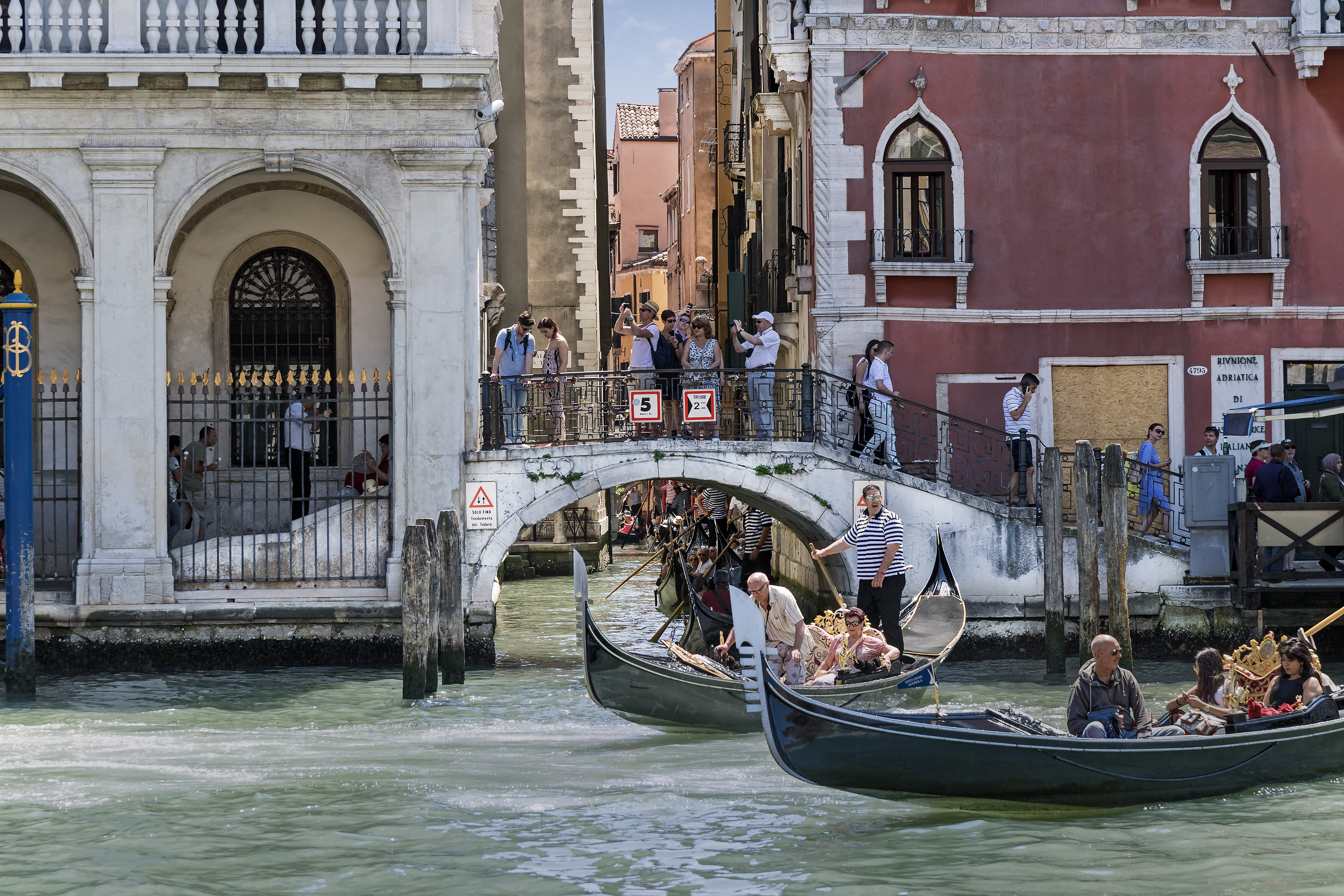 Ponte Manin in Venice seen from the Grand Canal.